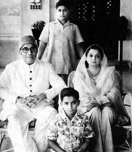 Liaquat Ali Khan with his family (Prime ministers of Pakistan)His wife Begum Ra'ana